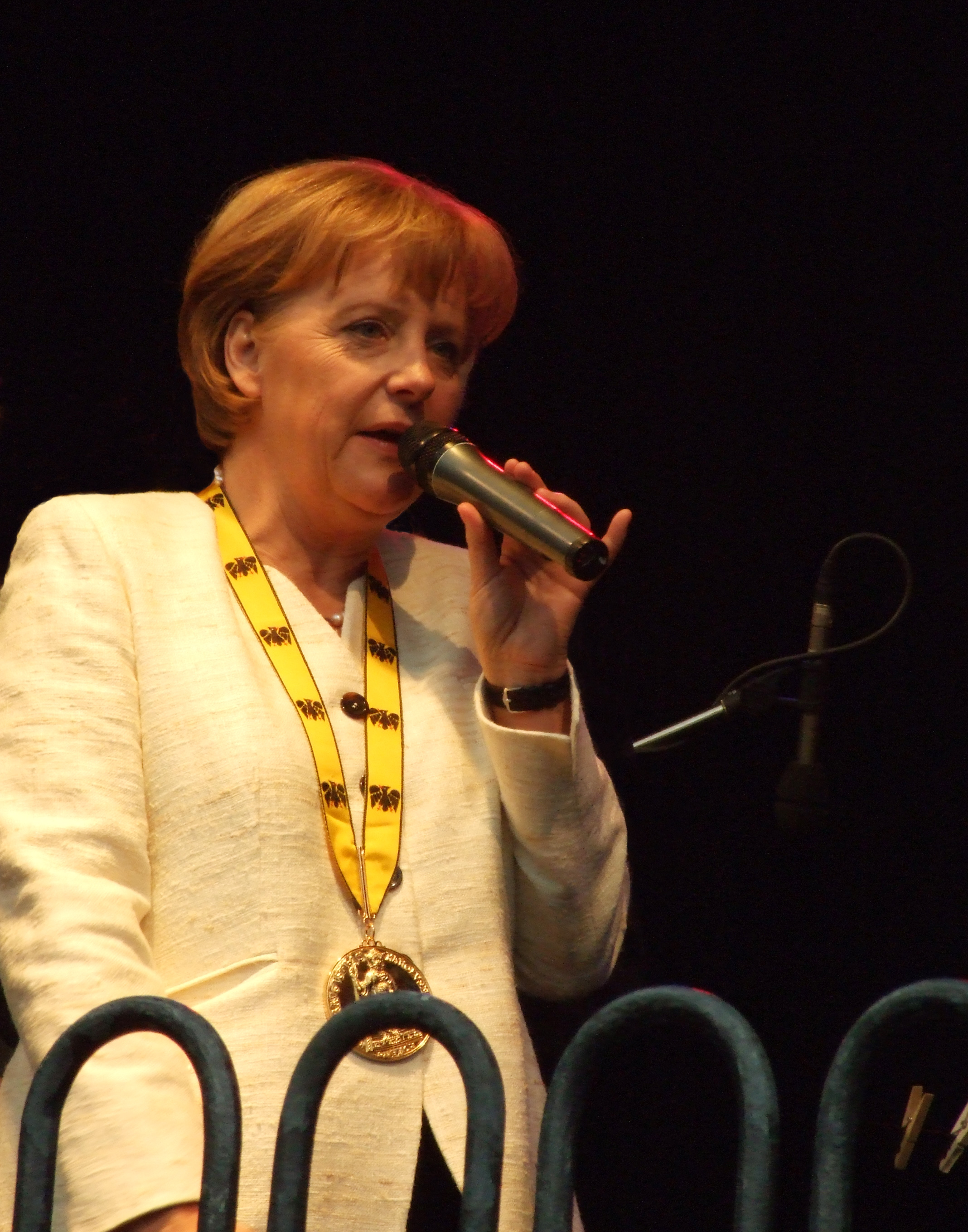 Angela Merkel at the Charlemagne Prize celebration 2008